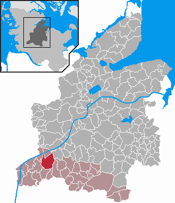 Locator maps of municipalities in Schleswig-Holstein - District Rendsburg-Eckernförde